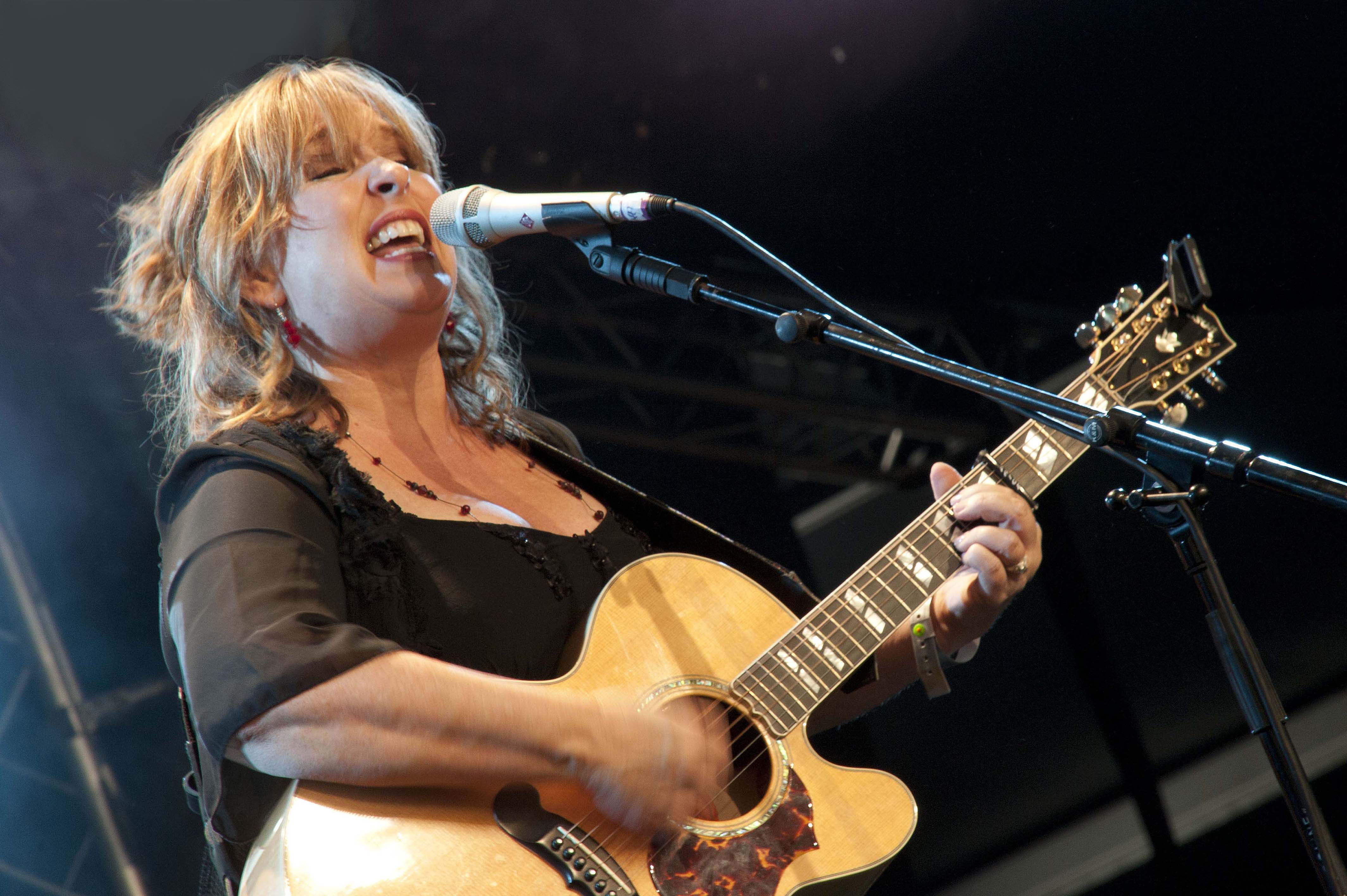 Musicians Cambridge Festivals 2001-2014